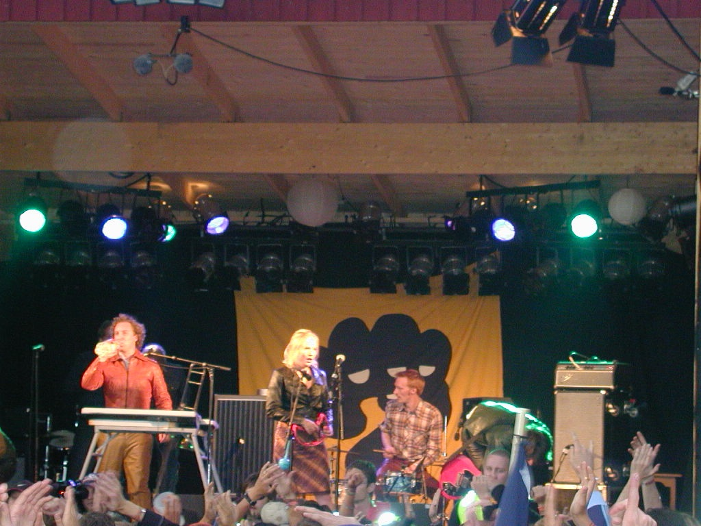 Doktor Kosmos, a musical group from sweden.